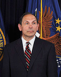 This is a portrait of U.S. Secretary of Veterans Affairs, Robert A. McDonald.